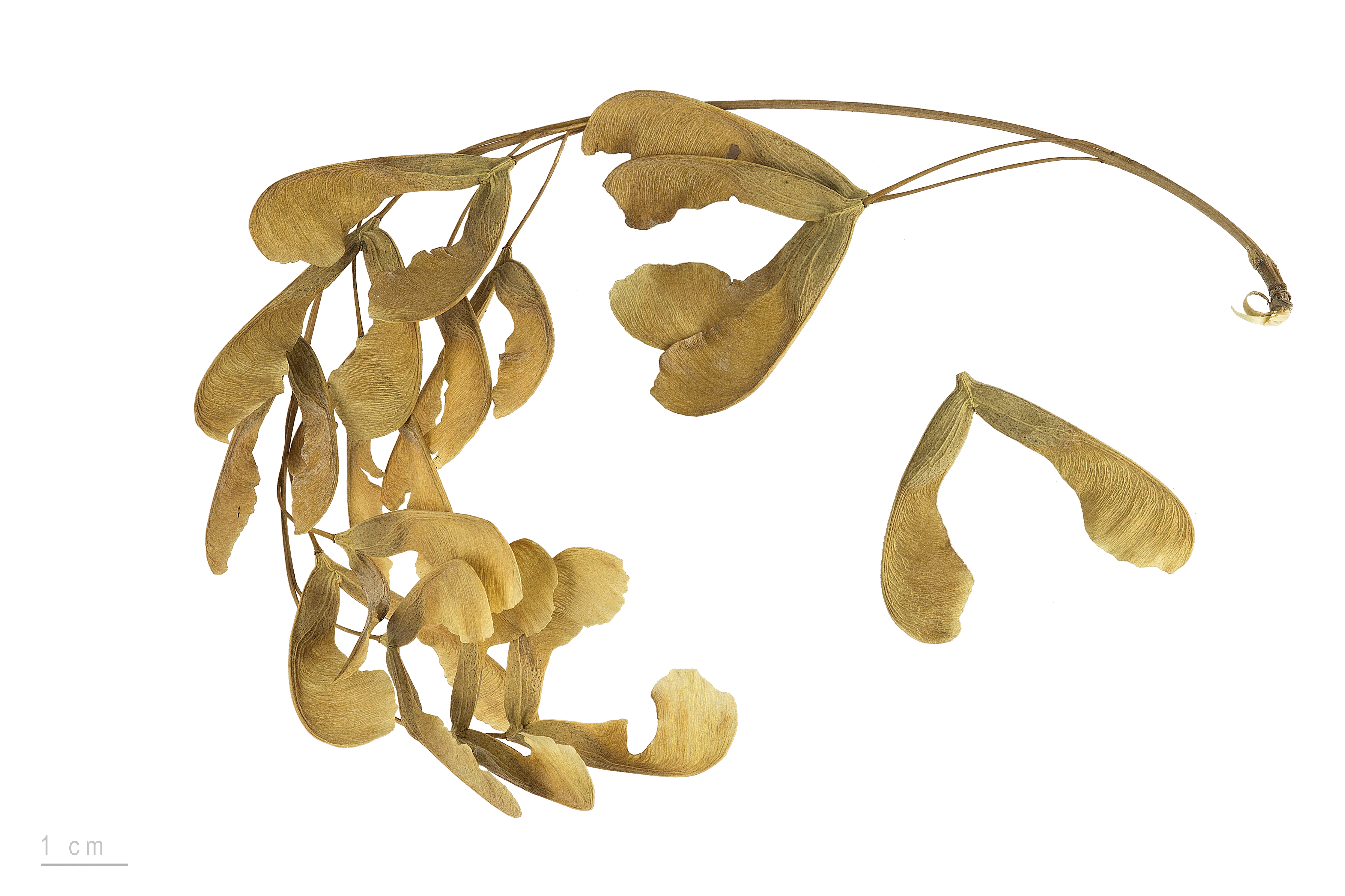 Box elder , fruits and seeds